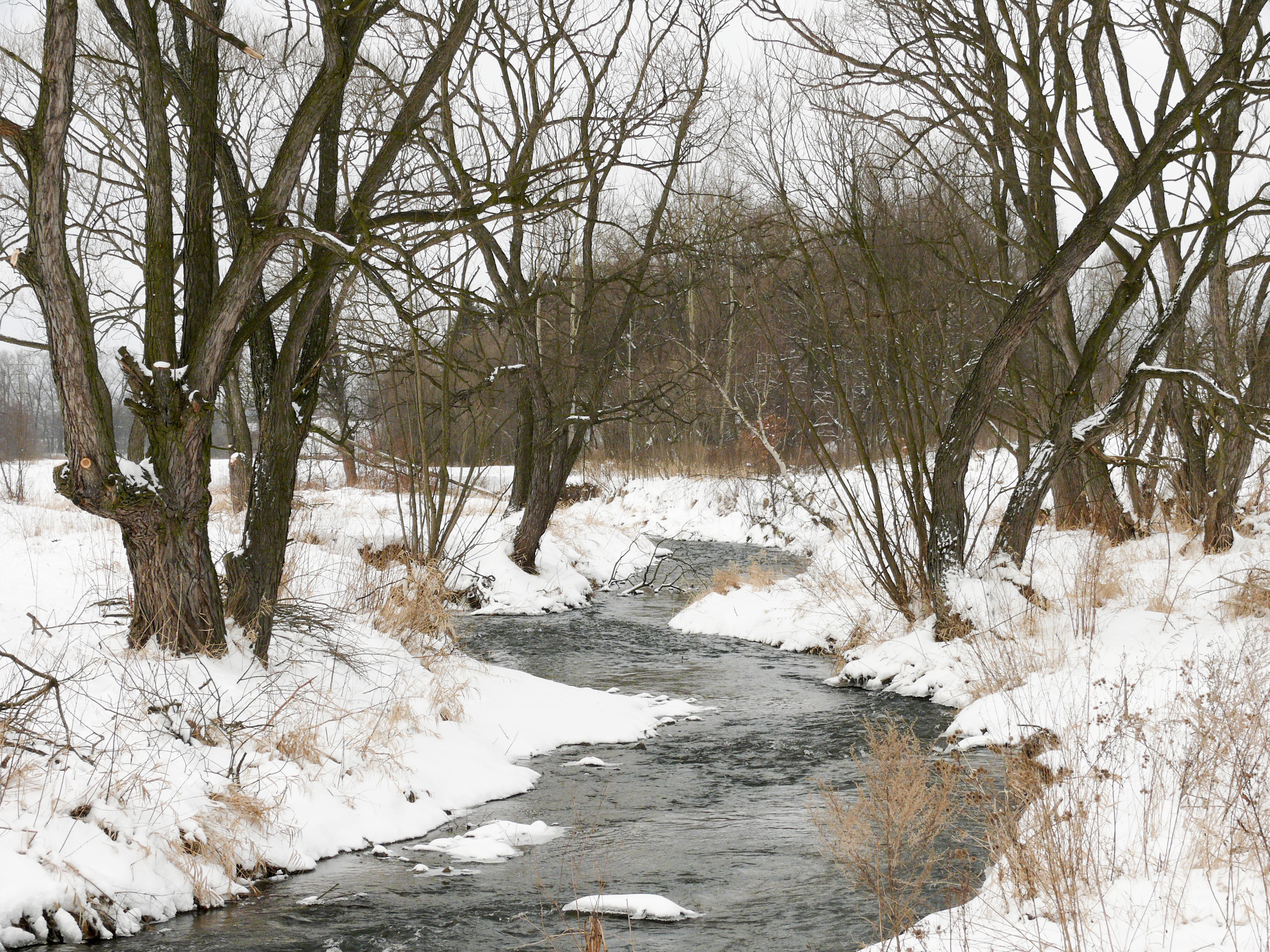 River Jedlica